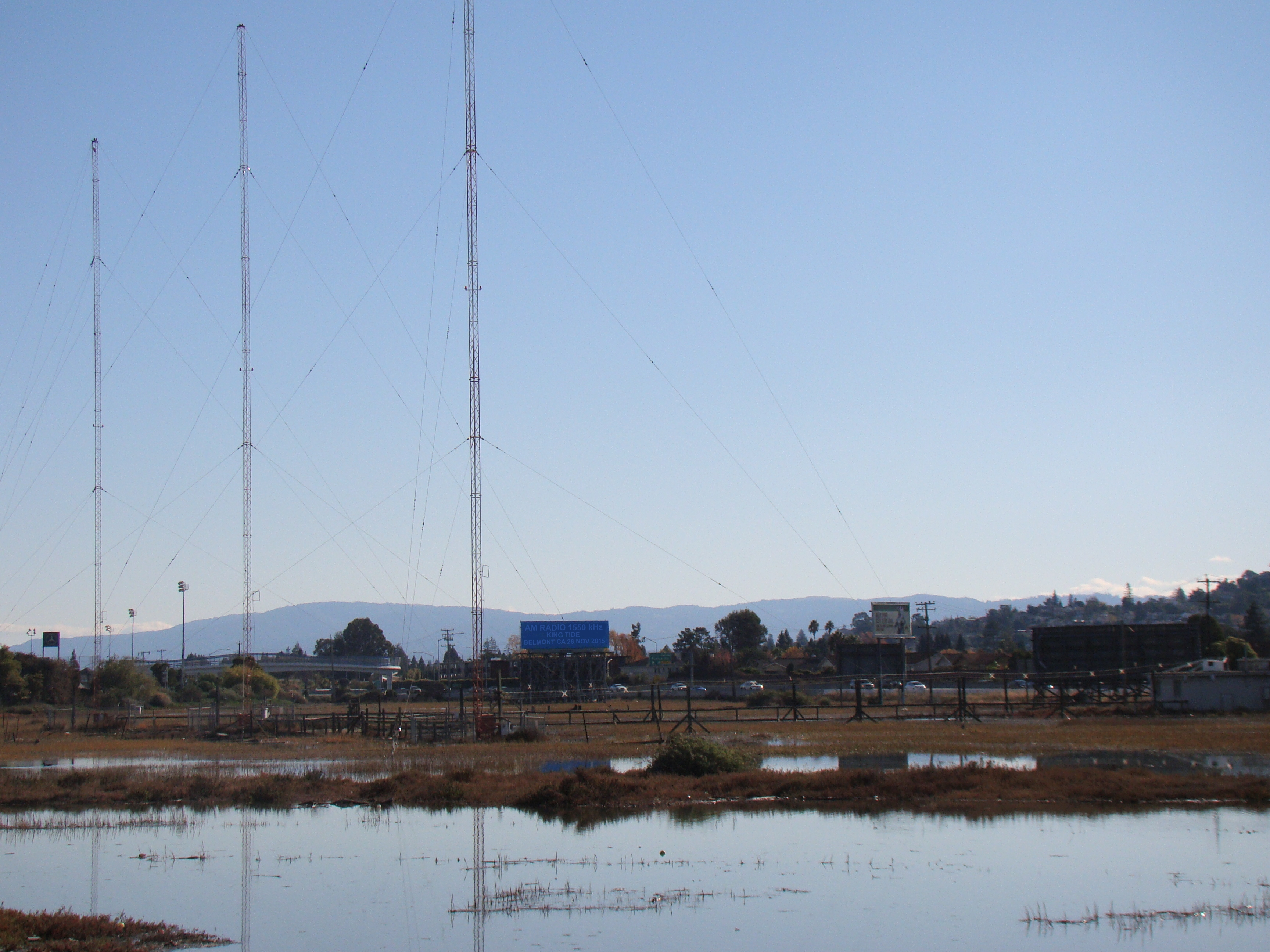 AM radio station 1550 kHz. Belmont, California, USA. Transmitter site and antennas. Photo taken during King Tide flooding of O'Neill Slough, the high tide waters of San Francisco Bay, on 2015 NOV 26 at 1PM PST local time. The nearest tide station is Redwood City, which indicated water level about +9.6 ft MLLW. The photo shows flood of the transmitter site by the combined waters of the Pacific Ocean, San Francisco Bay, and the local watershed around Belmont Wetlands. It also shows how global climate change has raised the tide in this area, and the proximity of the tidal water to US Highway 101. This photo was taken from the vantage point of the O'Neill Slough - Foster City levee looking southward.